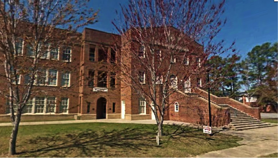 J. William and Marvis E. "Marcy" Byrd Apartment Complex and Historic Assembly Hall